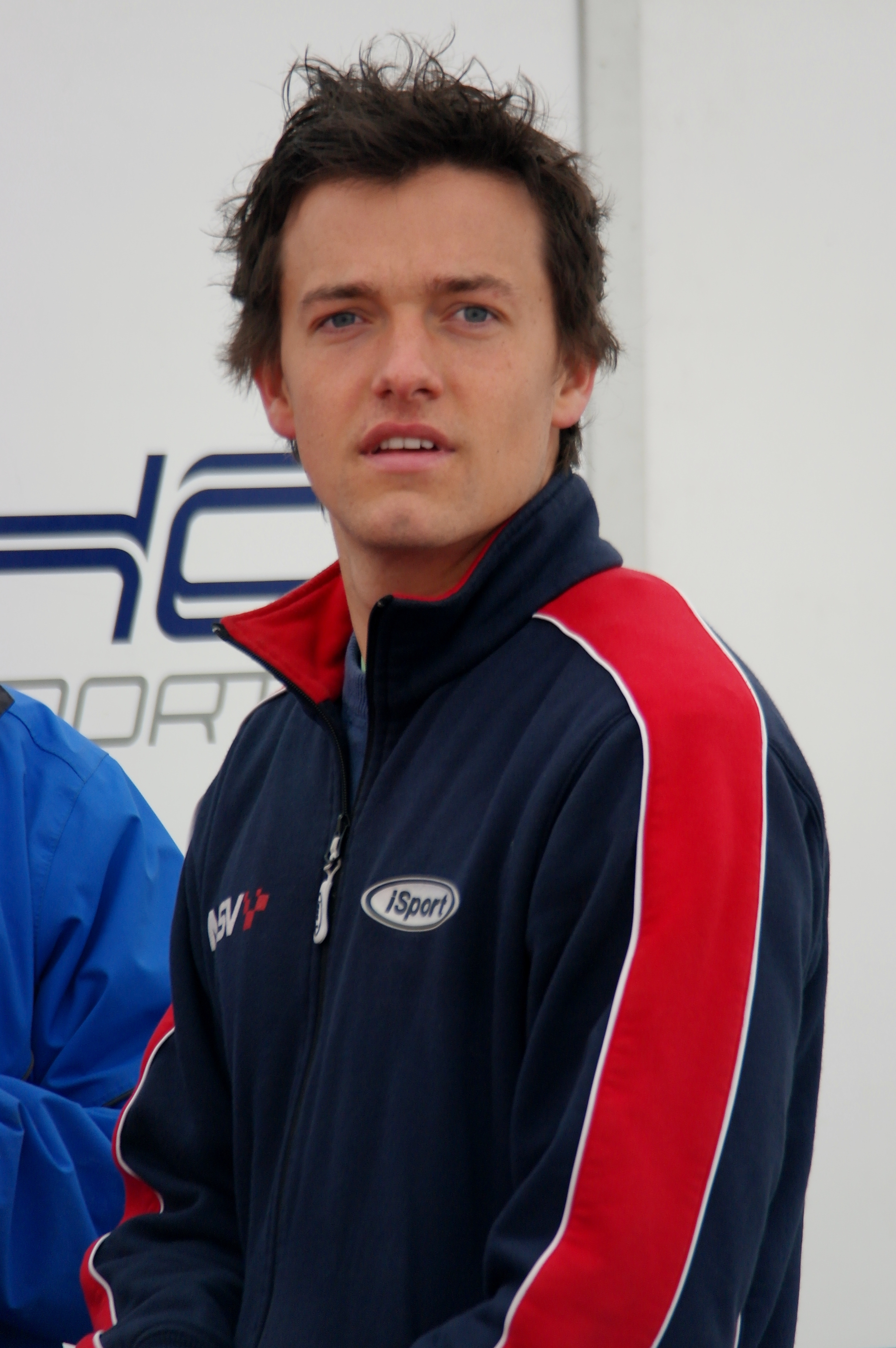 Jolyon Palmer as a guest at the Donington Park round of the 2012 Ginetta Junior Championship.